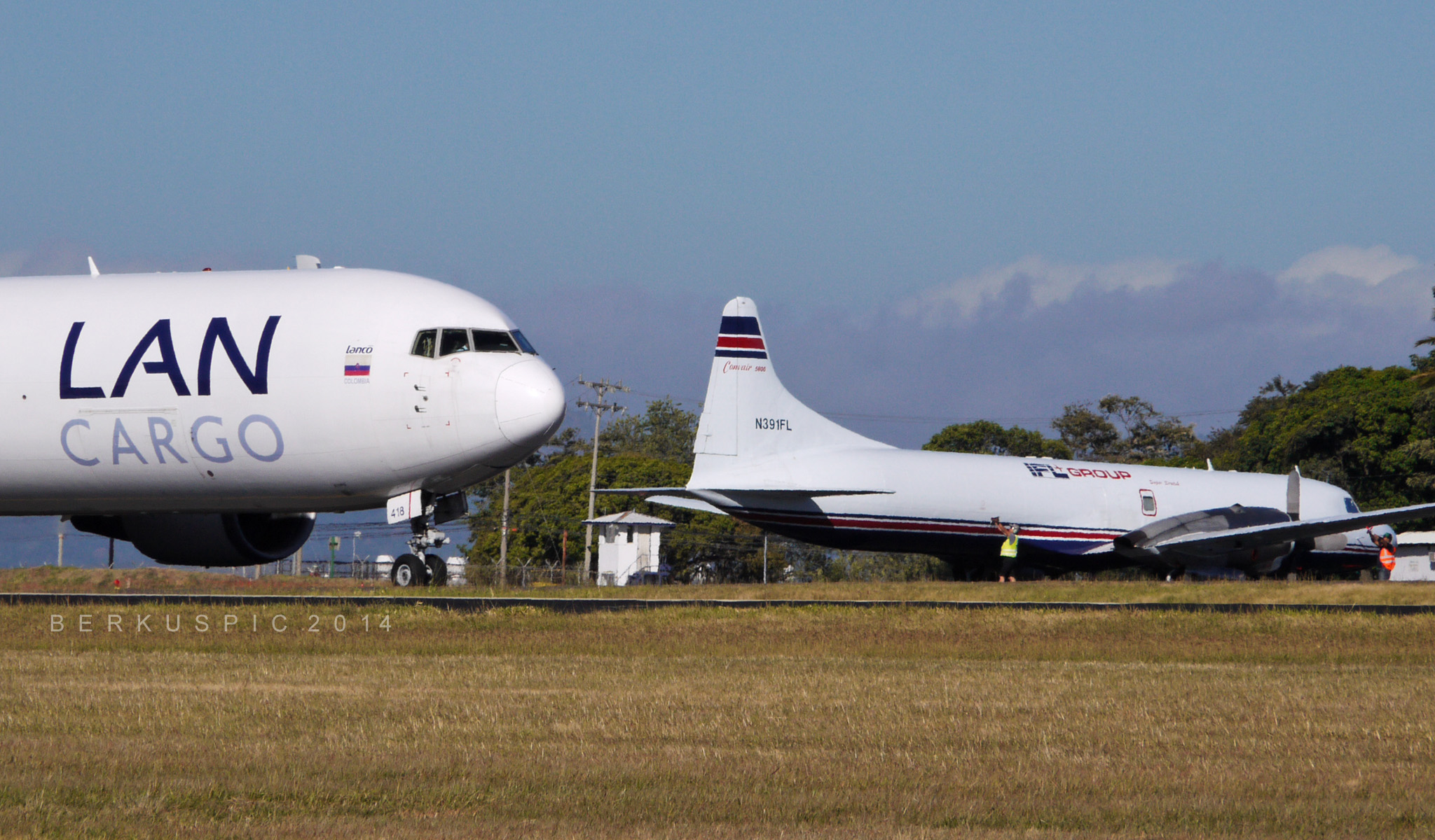 Morning at MROC Cargo ramp. CV580 flying for FedEx.